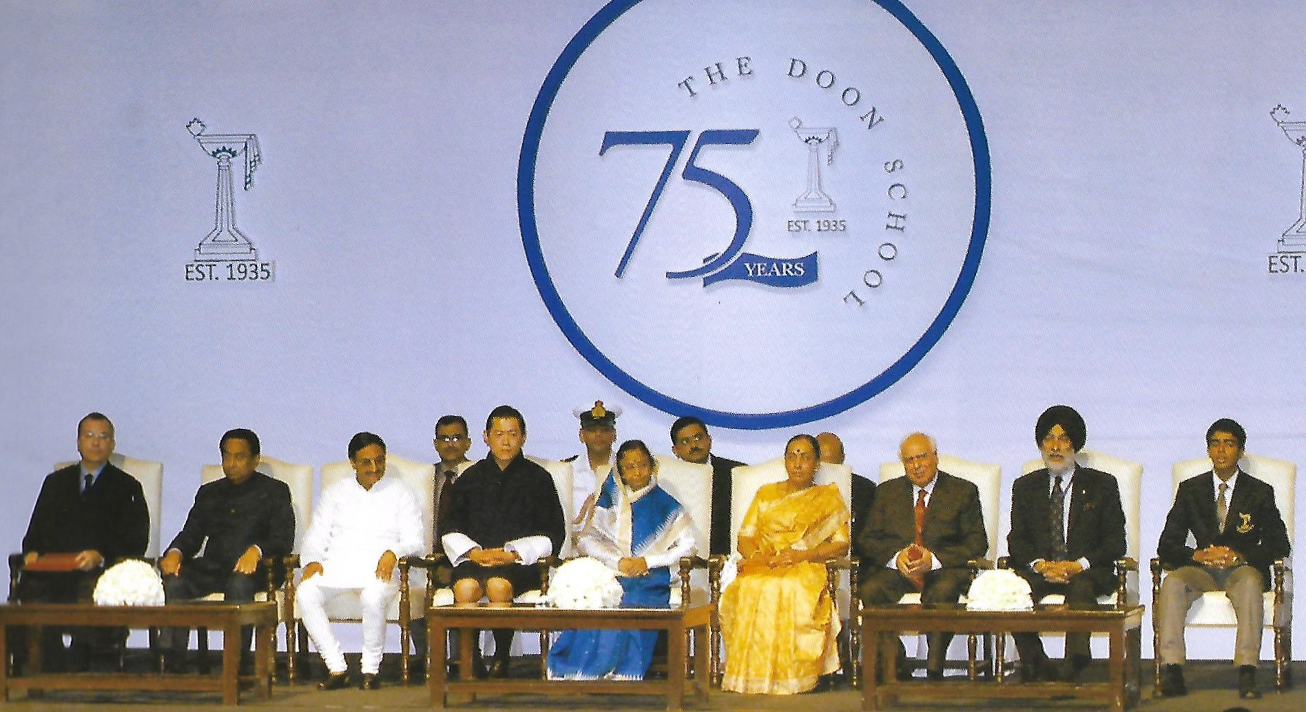 Main event at The Doon School 75th Founder's Day (DS75, Platinum Jubilee). Seated left to right: Peter McLaughlin (Headmaster); Kamal Nath (Minister of Road and Transport); Ramesh Nishank Pokhriyal (Chief Minister of Uttarakhand); Jigme Khesar Namgyel Wangchuck (King of Bhutan); Pratibha Patil (President of India); Margaret Alva (Governor of Uttarakhand); Kapil Sibal (Minister of Education and Human Resource Development); Analjit Singh (Chairman of Max Group); and the school captain.